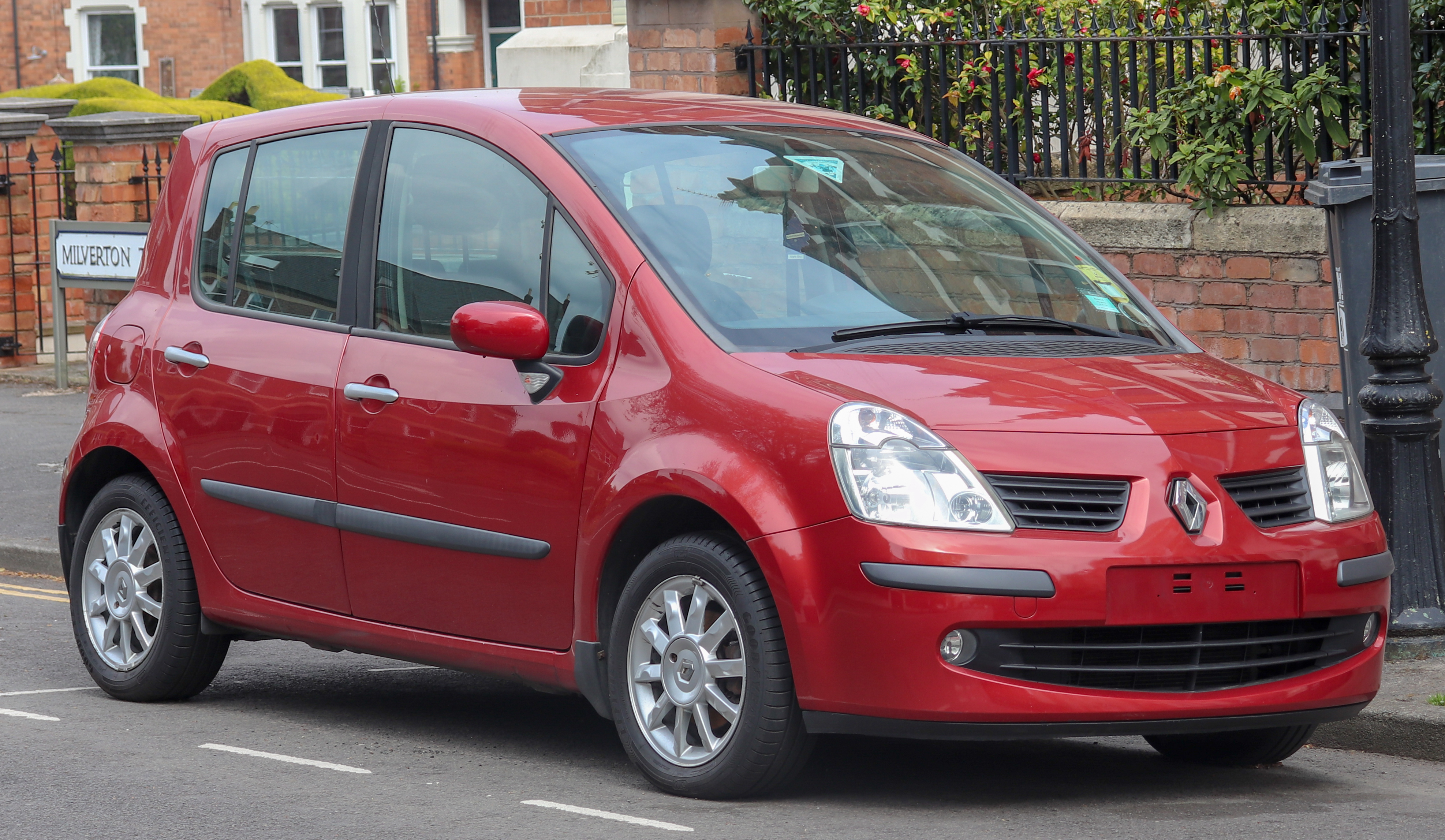 2005 Renault Modus Dynamique dCi 1.5 Front Taken in Leamington Spa